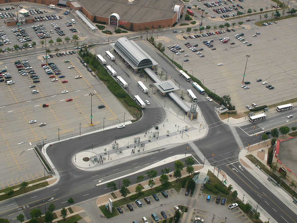 Aerial overview of the Mississauga Transit Central Terminal, August 2006. By Duke